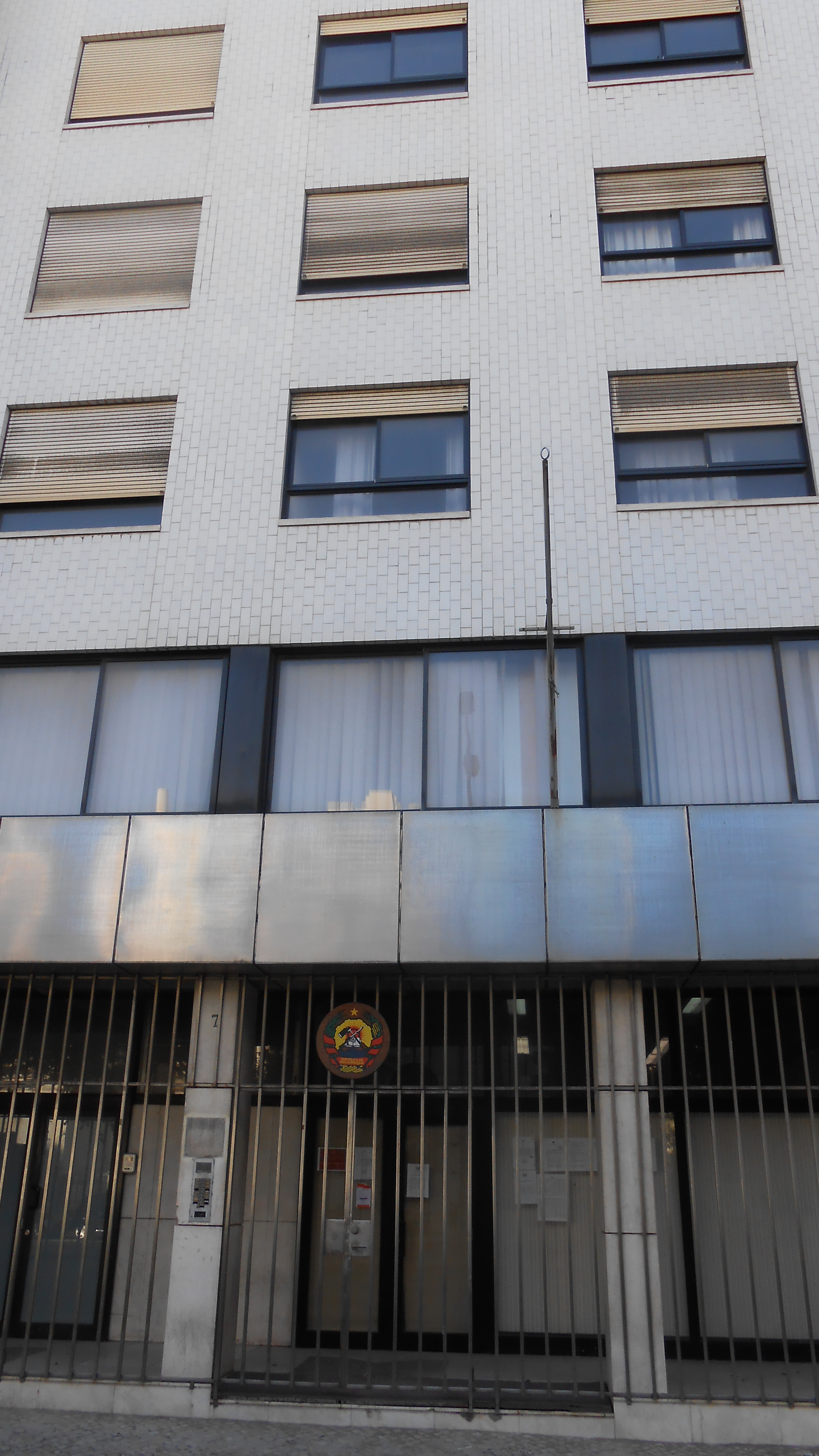 The embassy of Mozambique in the Avenida de Berna in Lisbon.